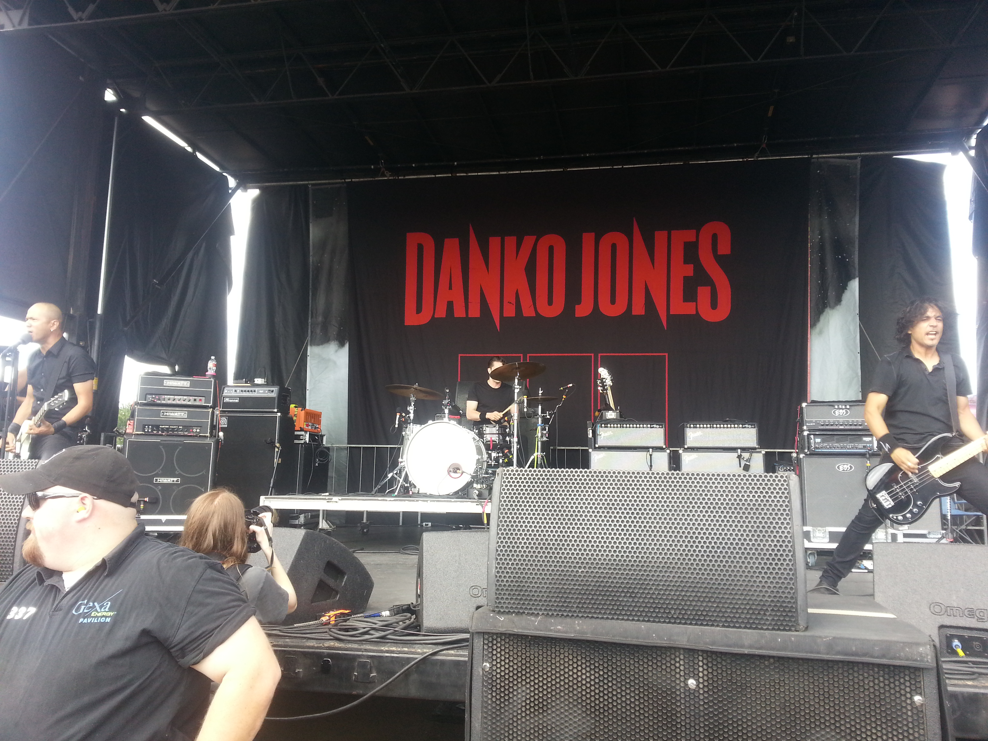 Danko Jones at Uproar Festival